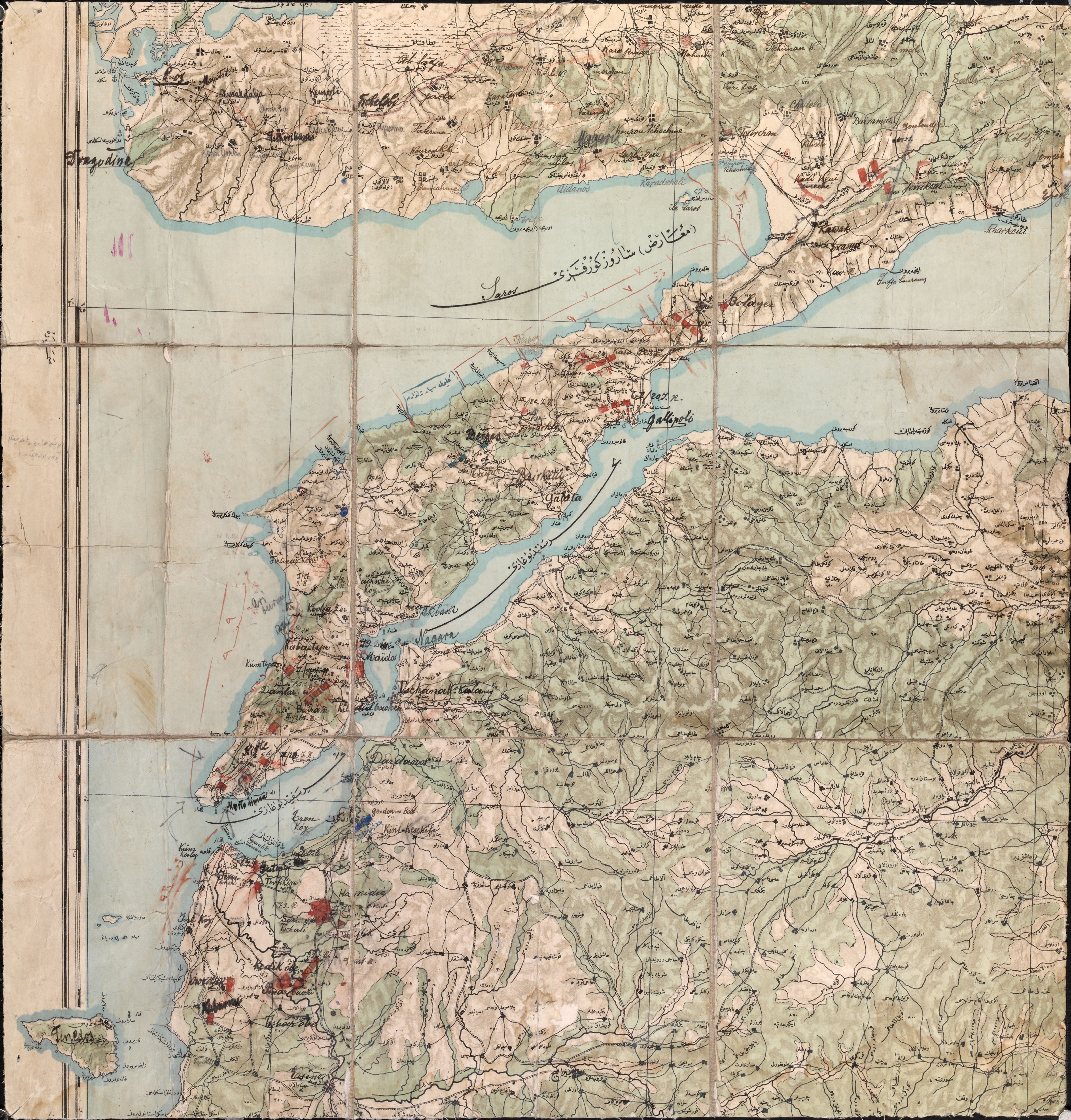 This map shows Turkish dispositions before the landings on 25 April 1915. The commander of the Ottoman Turkish Fifth Army, Otto Liman von Sanders, believed the British would attack at Bulair (called Bolayer on the map) at the narrowest point of the peninsula or on the Asiatic side of the coast across from the island of Tenedos, which was occupied by the British. This map shows how Liman von Sanders distributed his troops in anticipation of the allied invasion. A third of his forces was located on the Asiatic side of the cost, another third was located at Bulair, while the final third was distributed around the tip of the peninsula, with one division under Lieutenant Colonel Mustafa Kemal (later Atatürk, the first president of modern Turkey) based at Boghali and the other division based to the south of Gaba Tepe (also called Kaba Tepe). No Turkish forces are indicated on the map around Ari Burnu, where the Australians and New Zealanders landed on 25 April, although there are some defences indicated at Gaba Tepe, further south. Ari Burnu is not noted on this map at all in Ottoman Turkish (Arabic), and while most place names have been transliterated from Ottoman Turkish into Latin script in ink, the notation “Ari Burnu”, written on the map in pencil, was added at a later date, along with three pencilled arrows showing the area where the British landed at Cape Helles. The back of the map is signed “Liman von Sanders V Armee”.